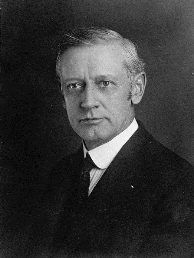 Charles Brand, congressman from Ohio.